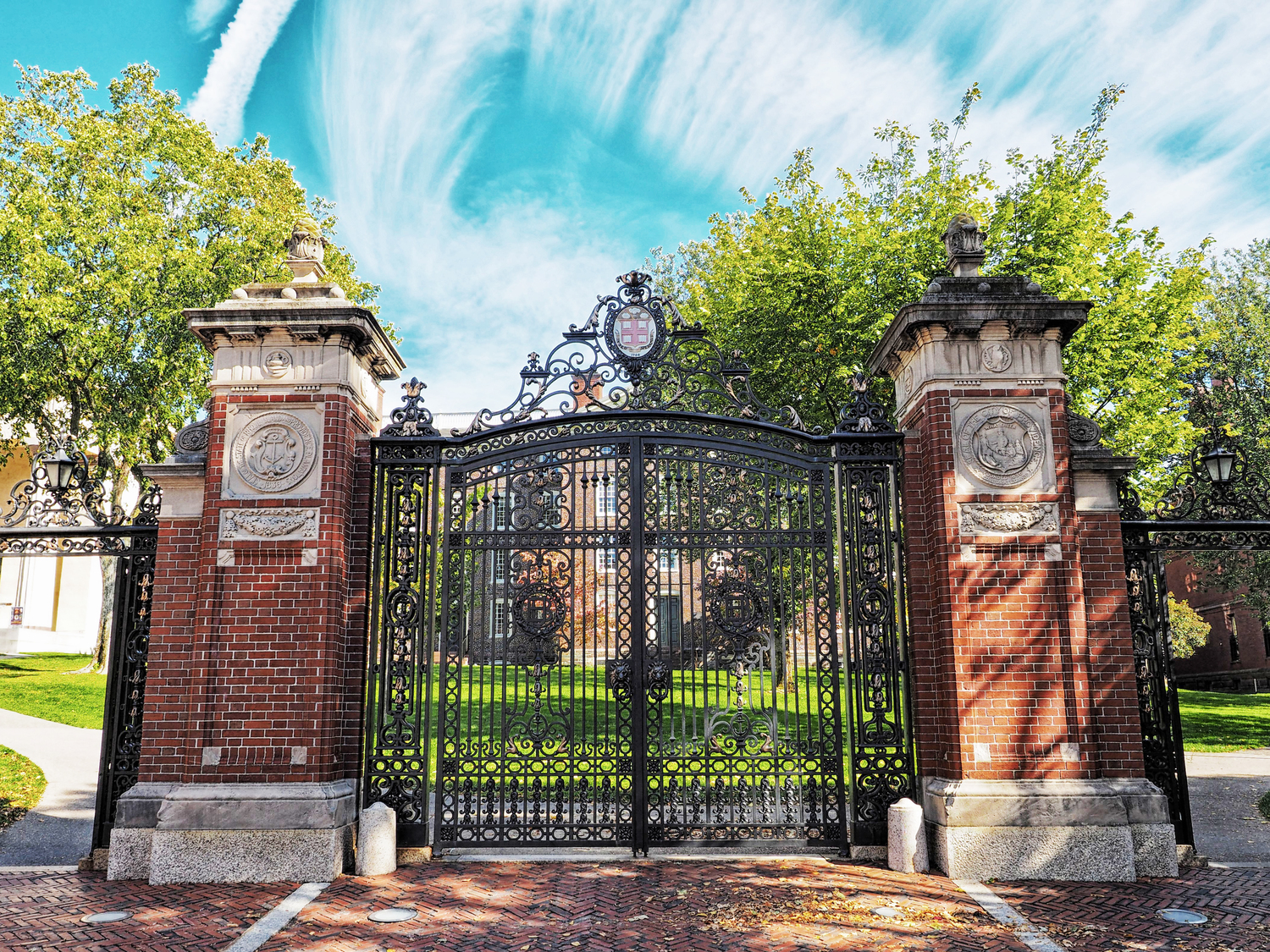 Van Wickle Gates